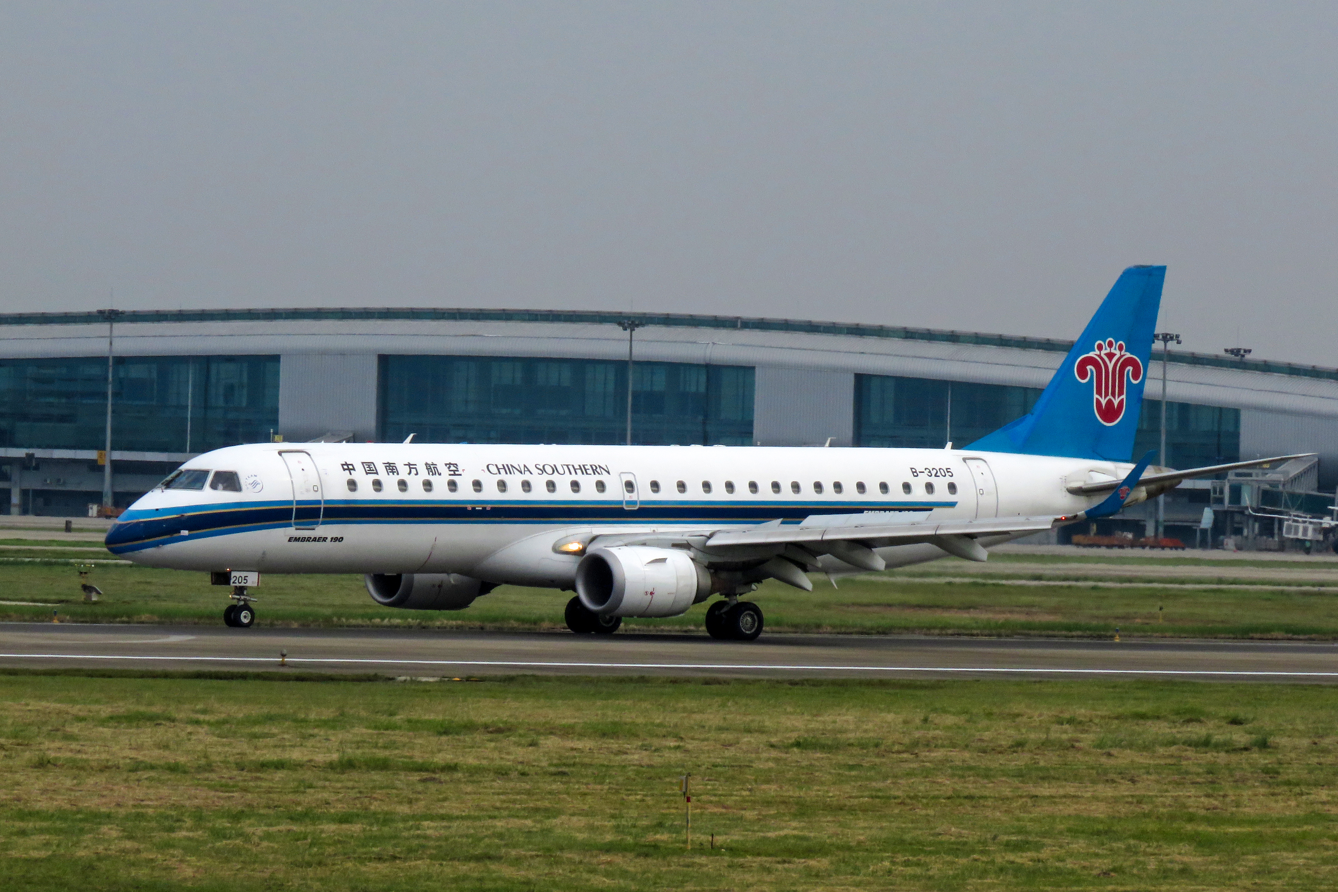 China Southern 3328 from Zhanjiang.